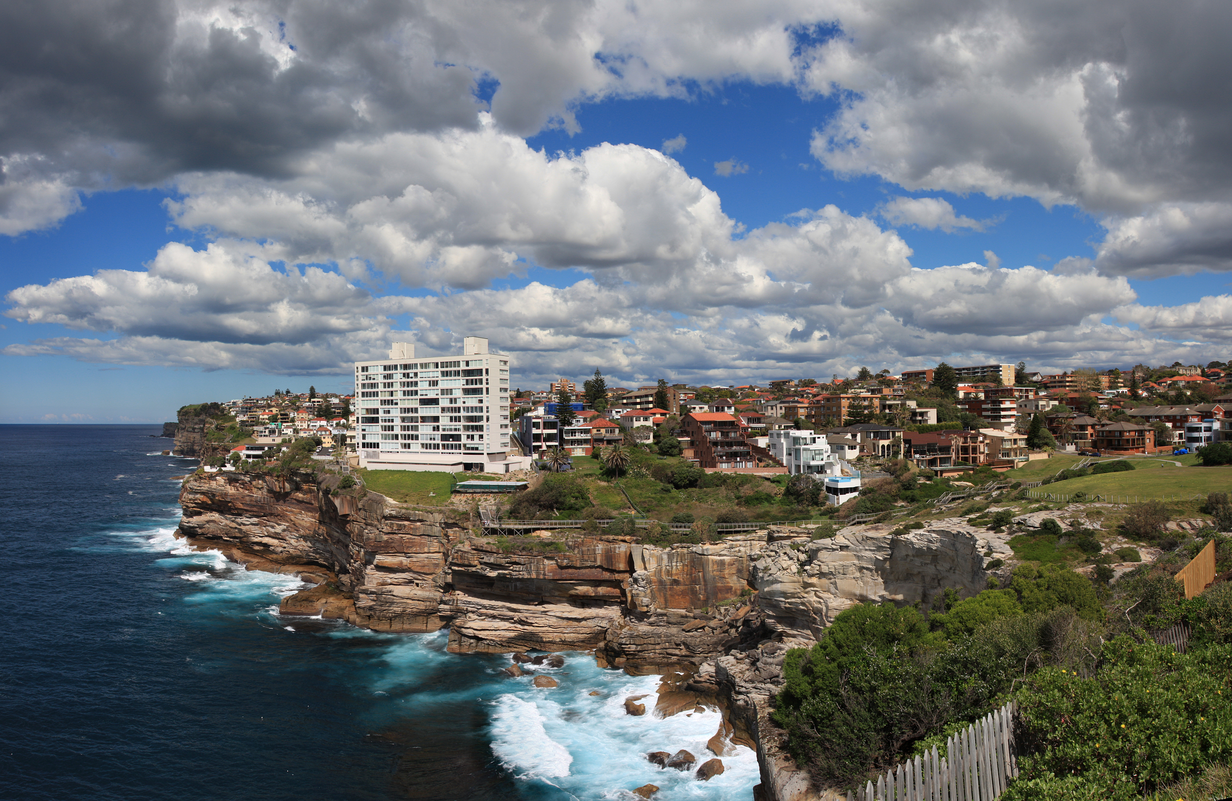 Looking towards Vaucluse and Dover Heights from the park in Chris Bang Crescent Vaucluse, New South Wales